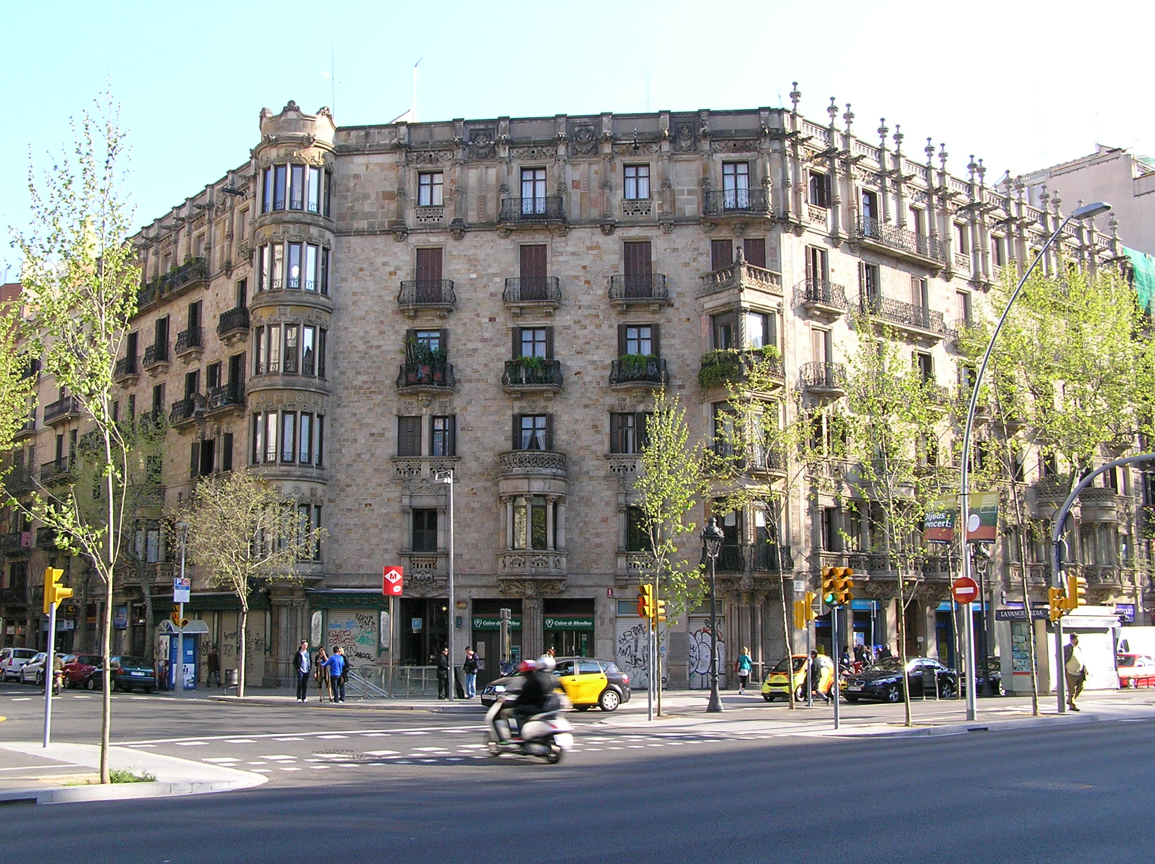 Casa Farreras, at Barcelona (1902), by the architect Antoni Millàs.